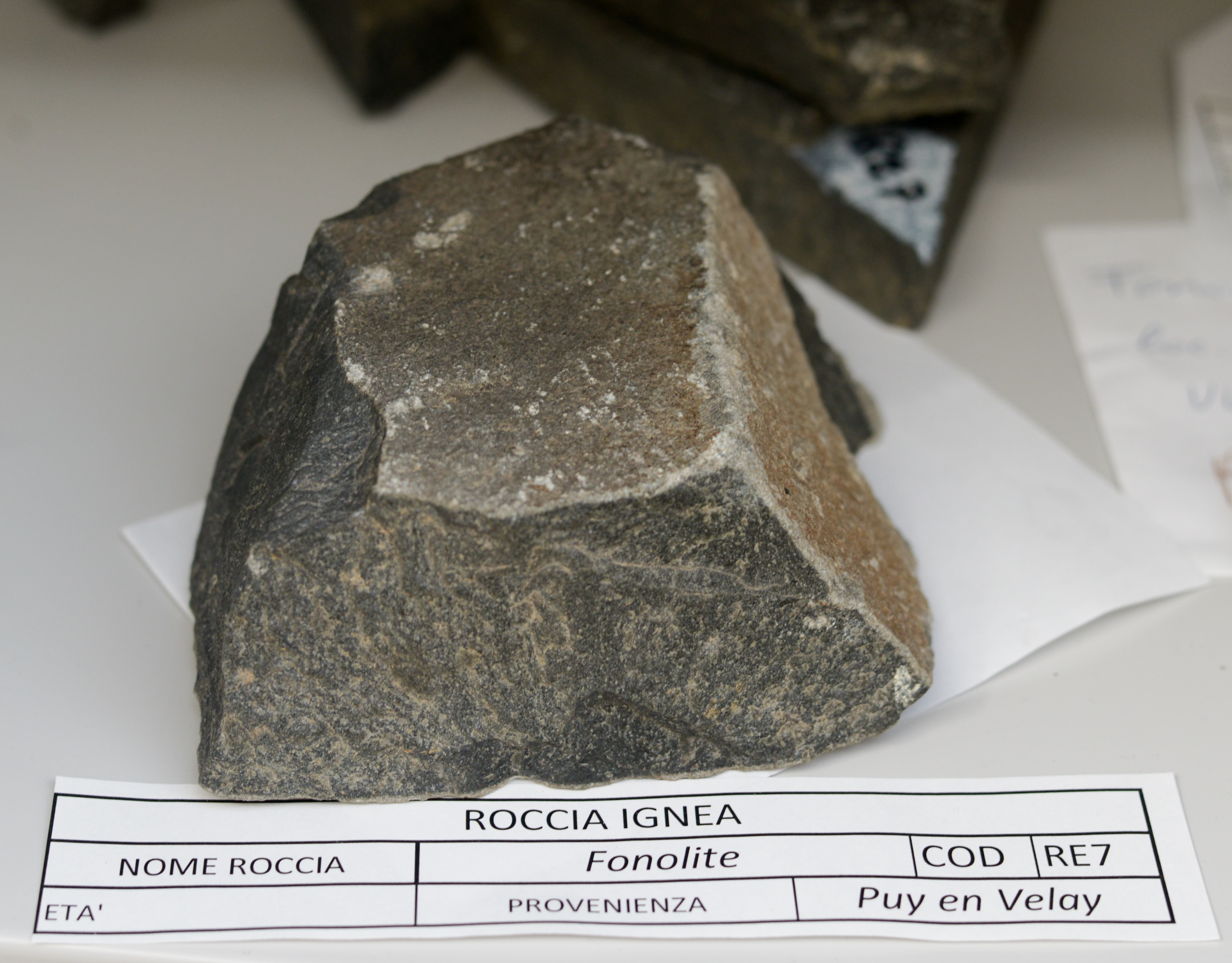 Phonolite from Puy en Velay